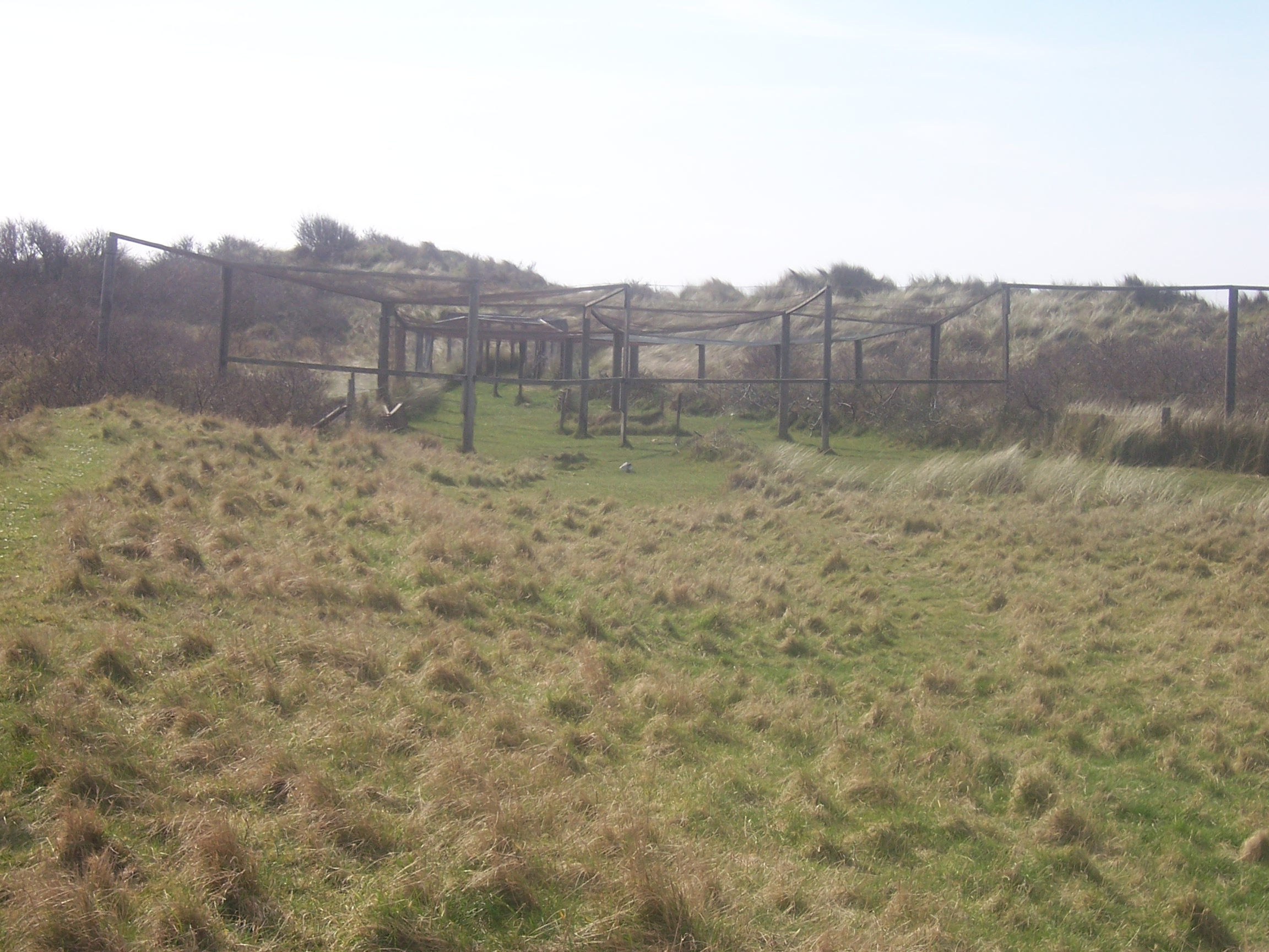 Bird trap at Spurn Point, East Riding of Yorkshire, England.This bird trap is used to observe migrating bird at Spurn Point, a nature reserve of Yorkshire. Birds are ringed, counted, identified and released.